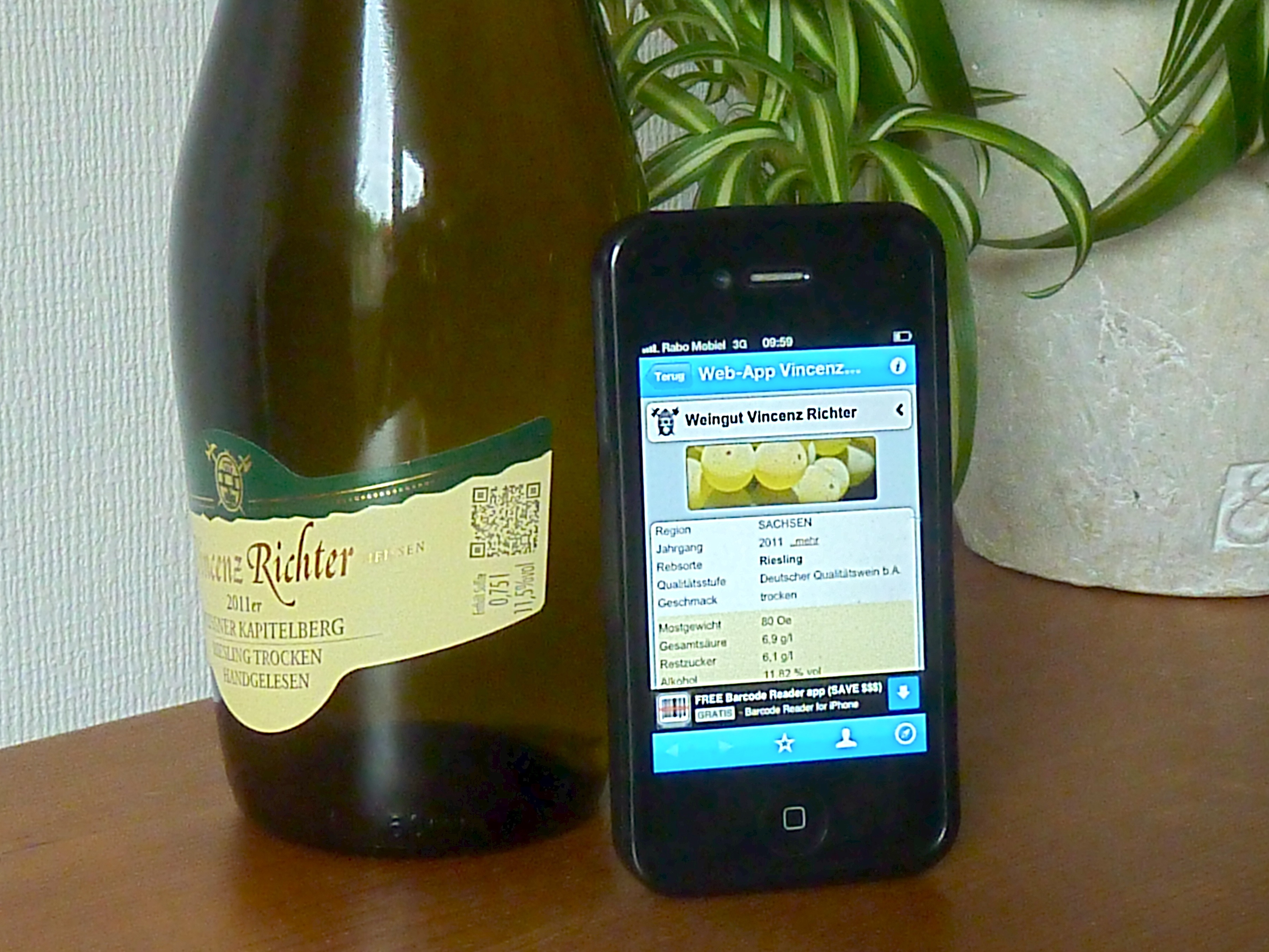 QR code on a wine label of a winery in Saxony